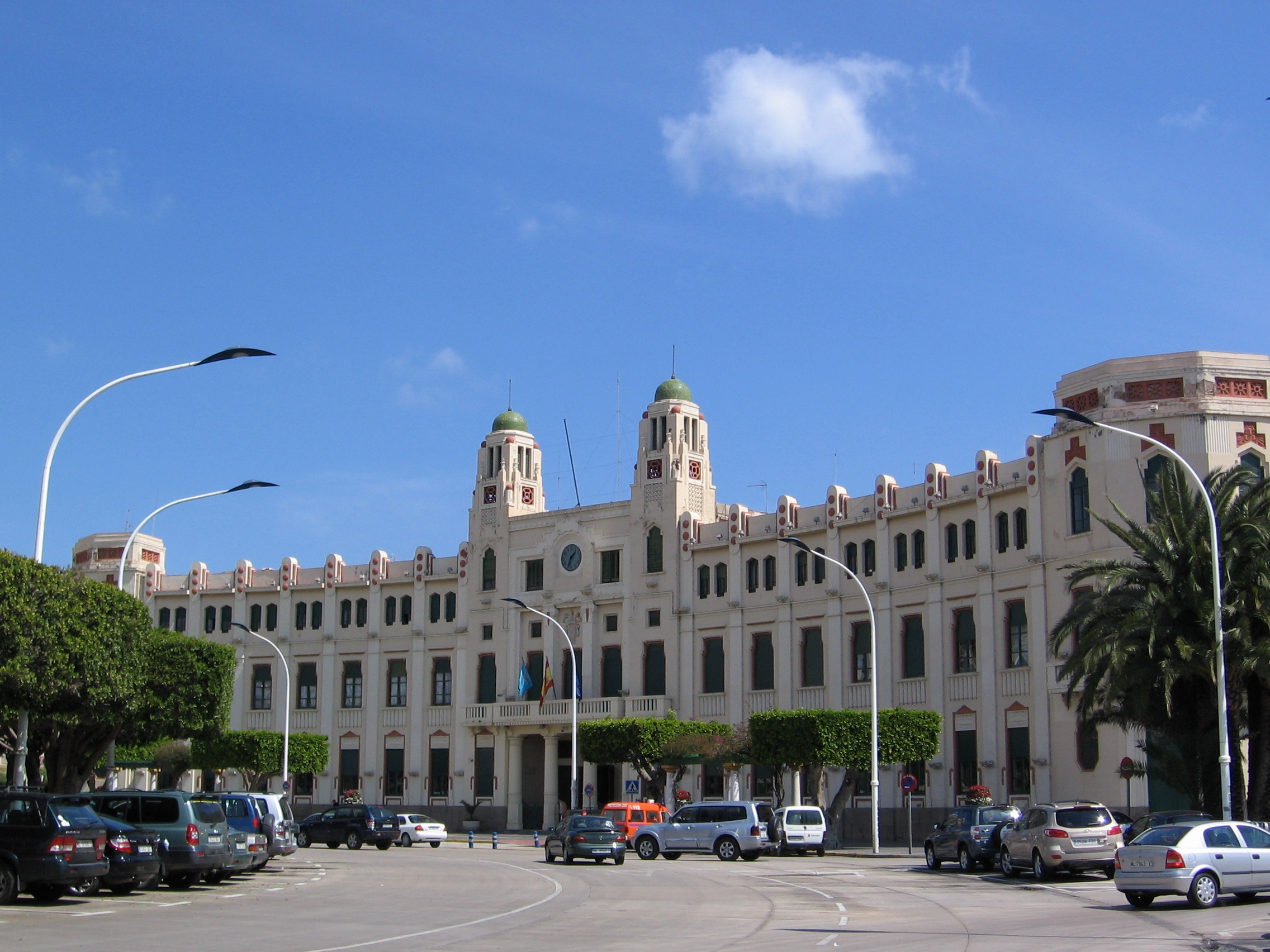 Town Hall of Melilla, Spain.